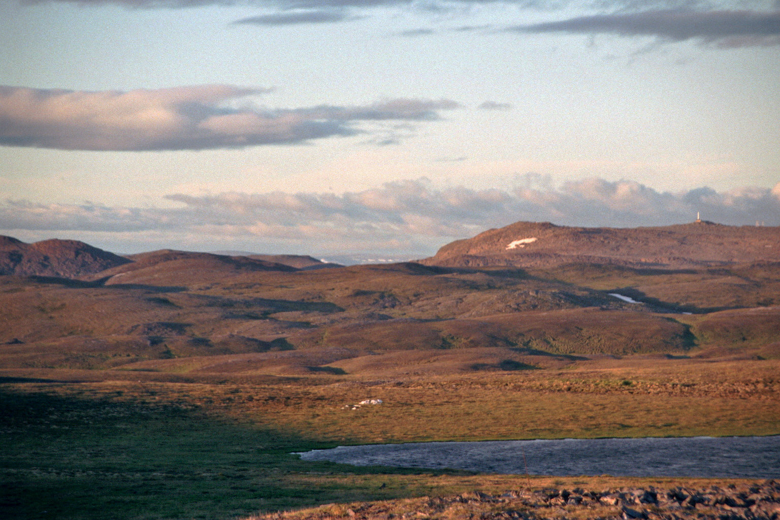 Magerøya (North Cape Island) in northern Norway